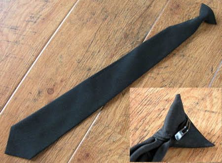 A clip-on tie showing the clip itself used to fasten to a shirt.